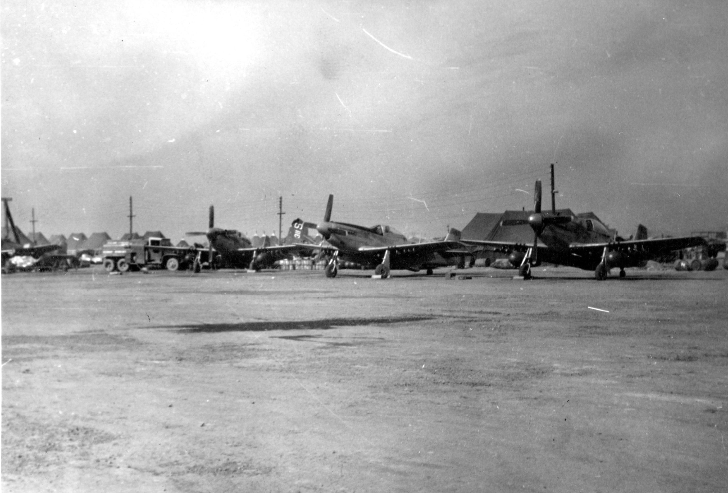 These are P-51 Mustangs from the US Air Force 8th Fighter Bomber Group at Kimpo Airfield, also known as K14, in October of 1950. Photo taken by LTC (USAF Ret) Harvey W. Gipple.